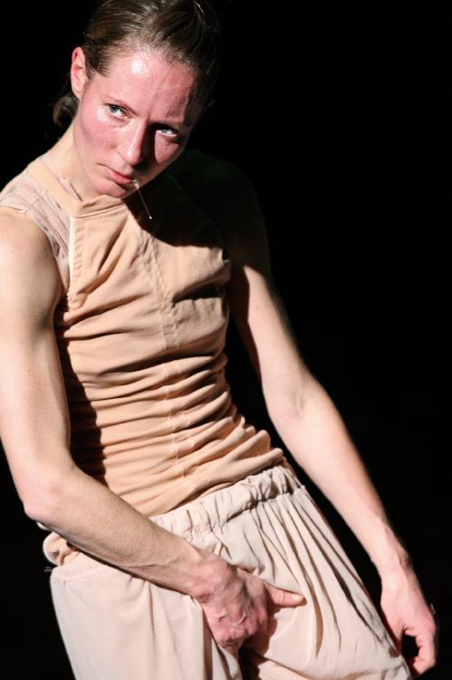 picture of Brit Rodemund in get a revolver. Choreographer: Helena Waldmann